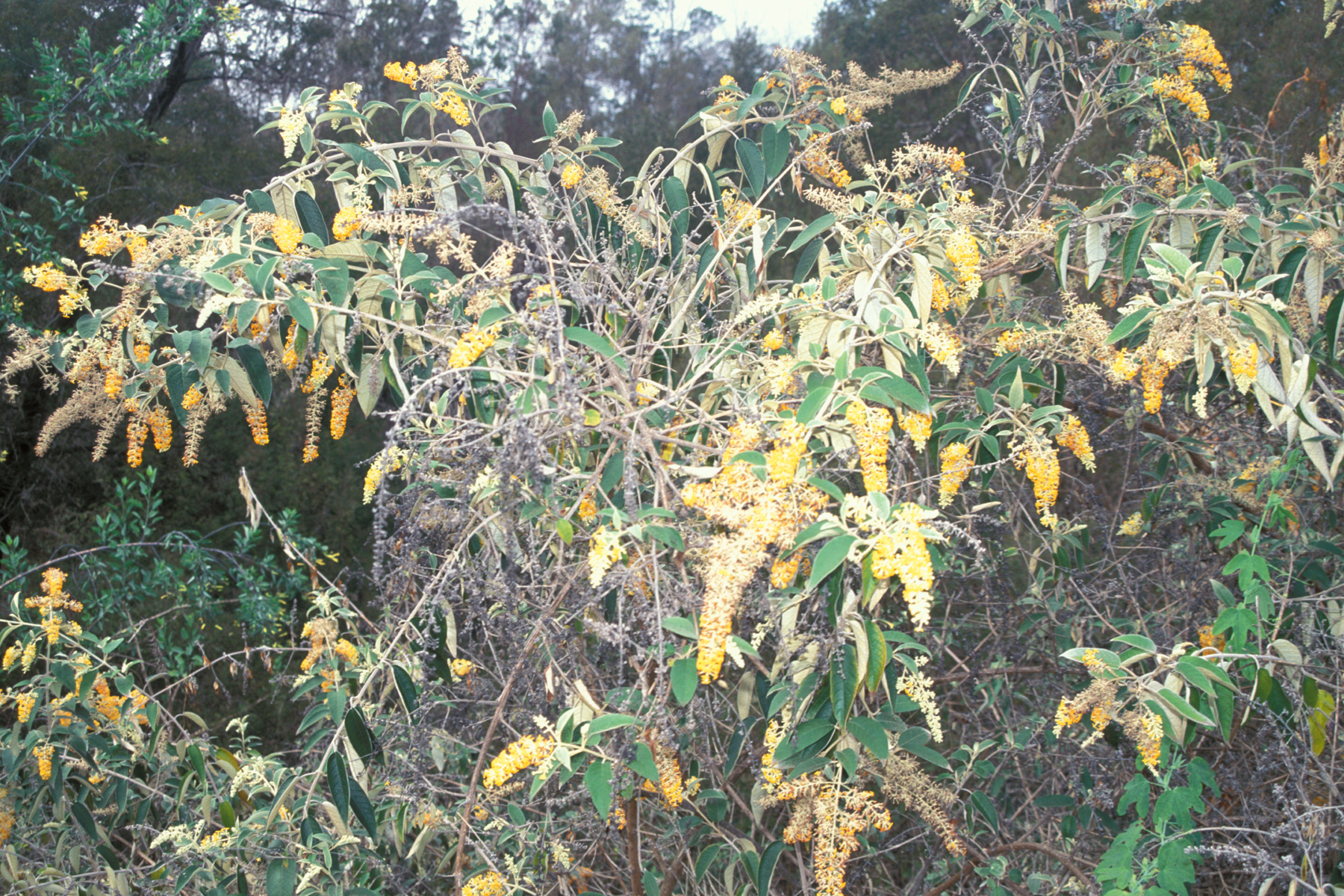 Buddleja madagascariensis (flowers). Location: Maui, Kula